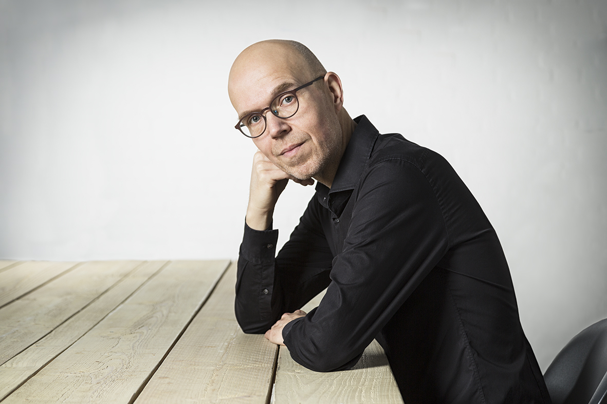 Tieme Woldman